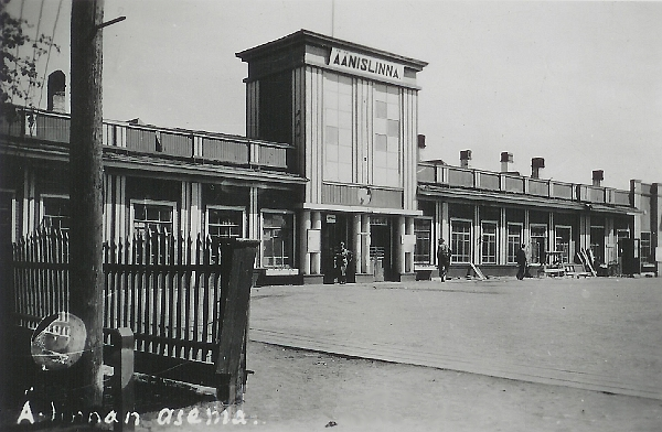 Petrozavodsk (Петрозаво́дск, in Finnish Äänislinna or Petroskoi) train station in Karelia, Russia. Photograph taken during the Continuation War in 1941-1944.